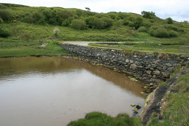 Causeway, Island of Danna View of the "causeway" connecting the Island of Danna with the mainland.